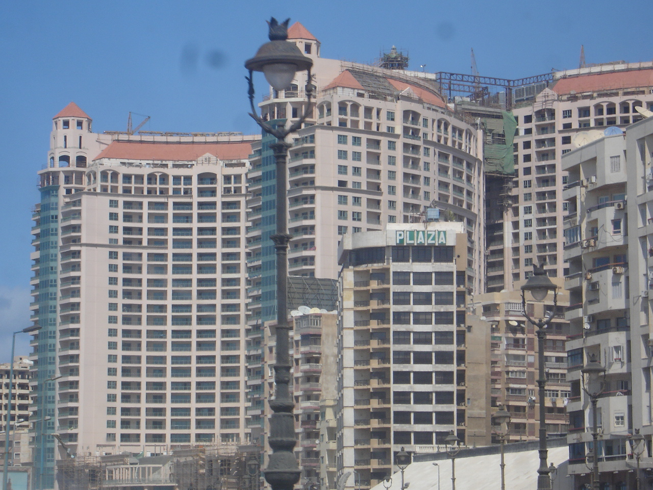 San Stefano grand plaza. 2006 (Author: )